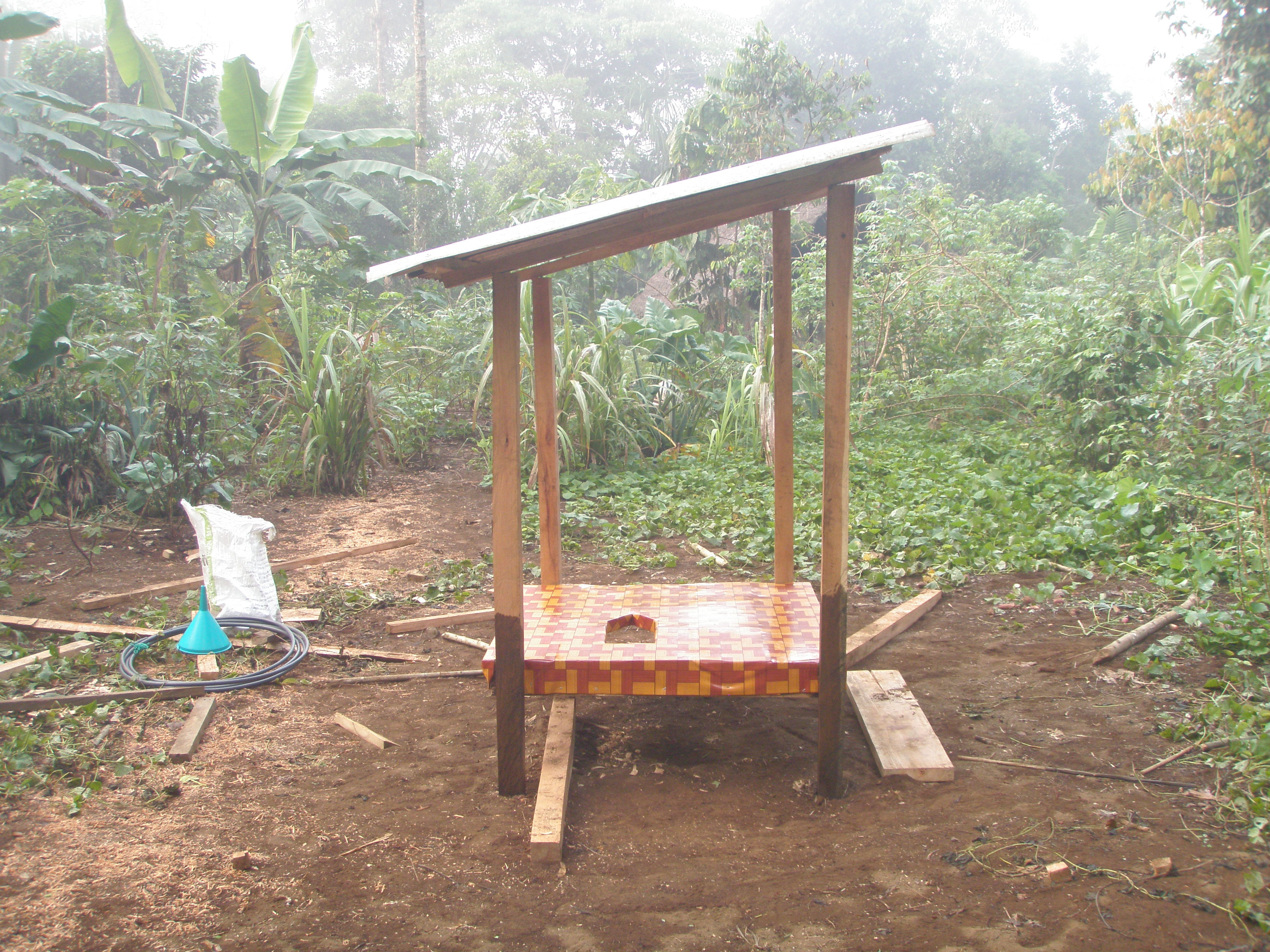 Skeleton of the structure. The floor is lower than normal. The sack is placed with the edges rolled down in this case ... and it has to be changed before it gets too heavy. El esqueleto de la estructura. El piso resultó muy bajo, pero así hay que cambiar el saco antes de que esté demasiado pesado.